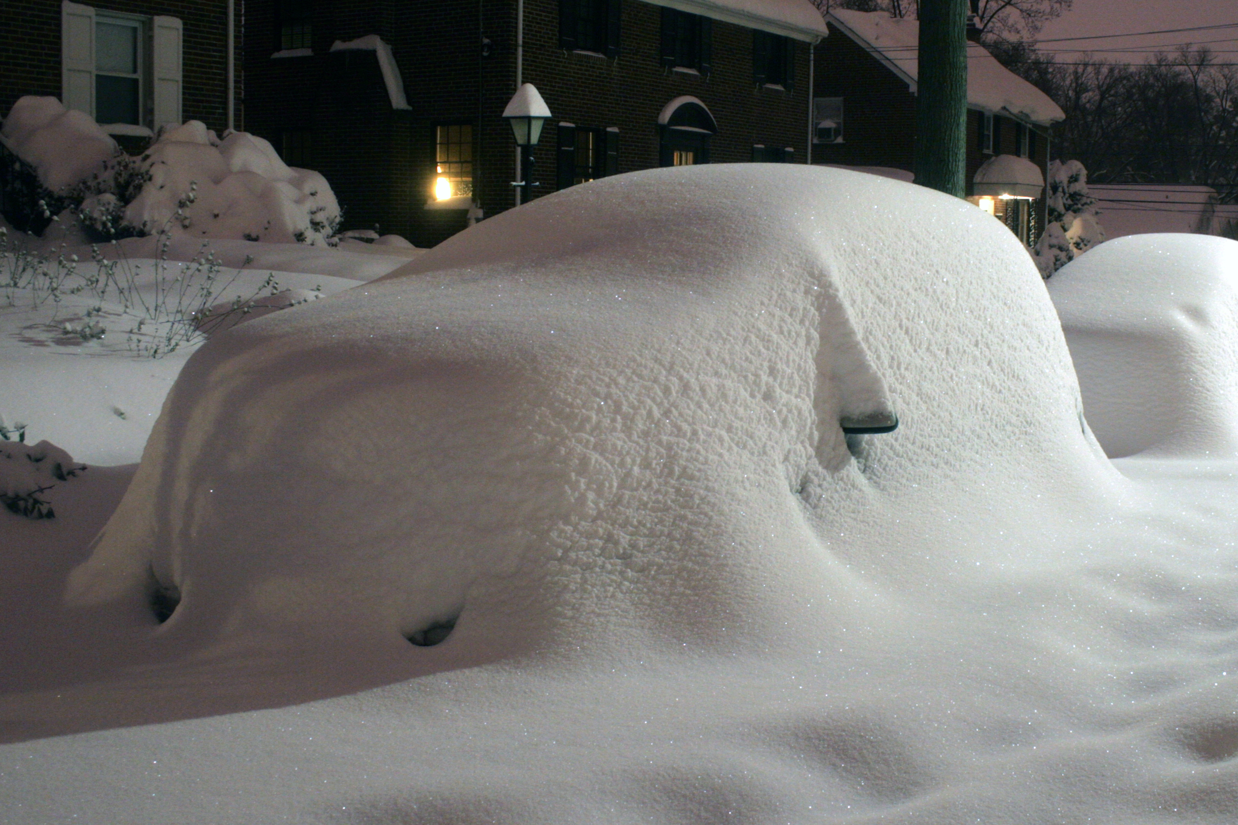 just 24 hours after the first flakes ...